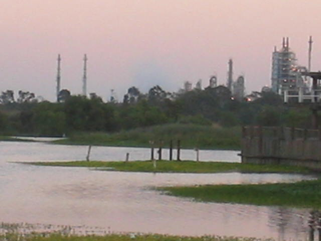 Lake Machado, previously home to the infamous 'Reggie the Alligator,' taken July 2005. I took the photo in July 2005. It's open to all. Elefuntboy 03:51, 11 September 2005 (UTC)